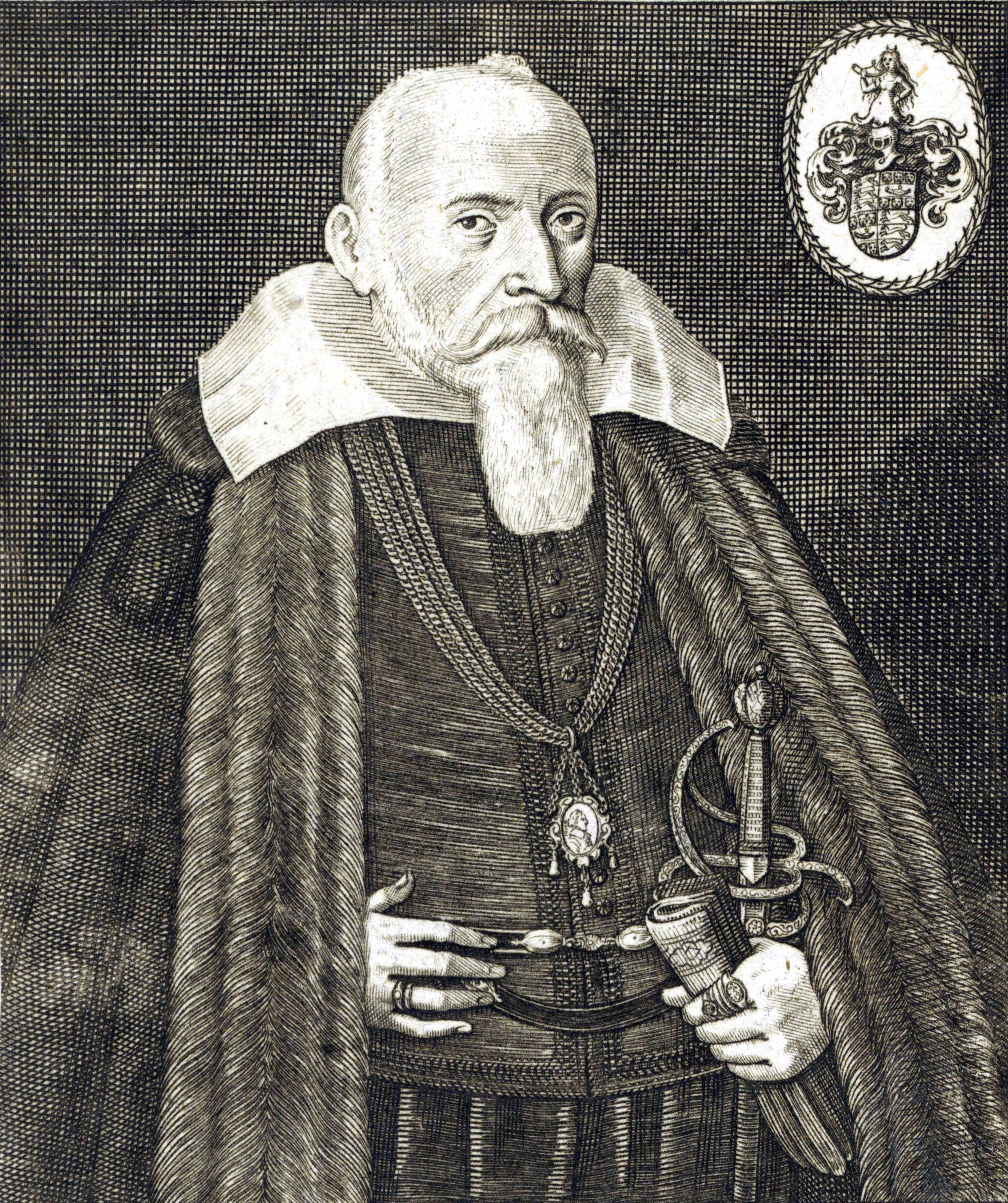 Ortolph Fomann the Elderly (1560-1634) german jurist